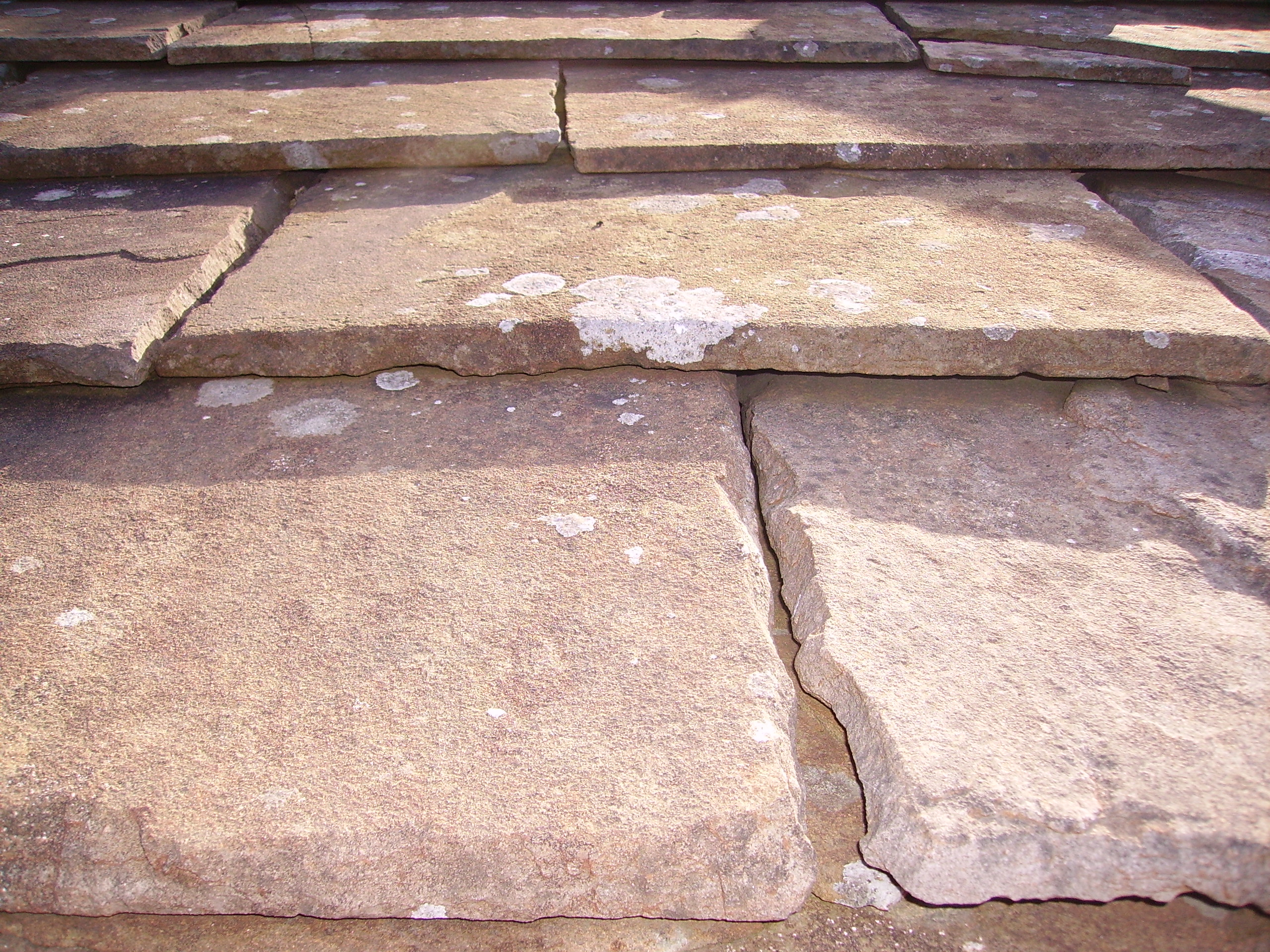 roof near Carleton in Craven in North Yorkshire, United Kingdom